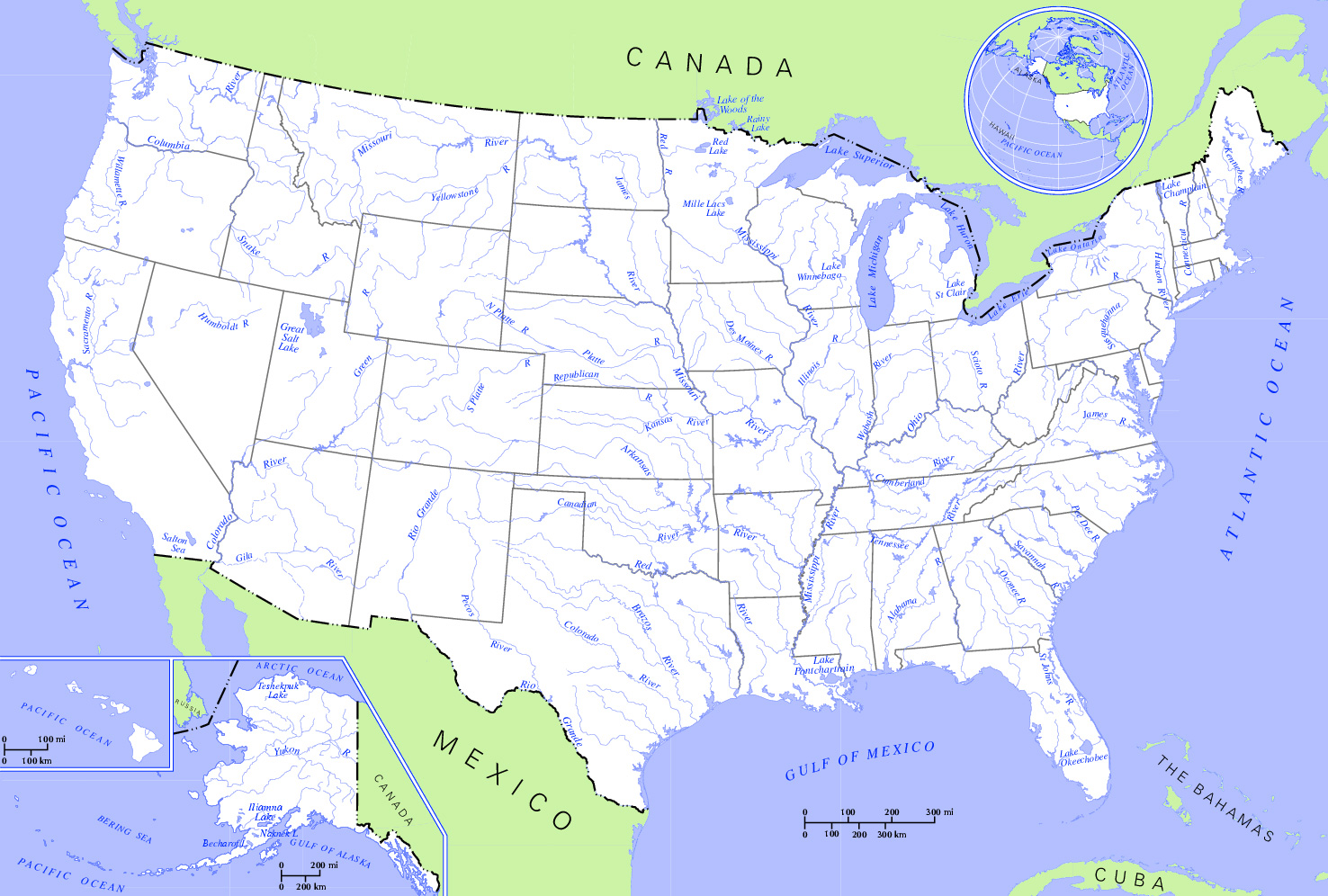 Rivers and Lakes in the United States. * Author: US Department of Interior * there also available as PDF